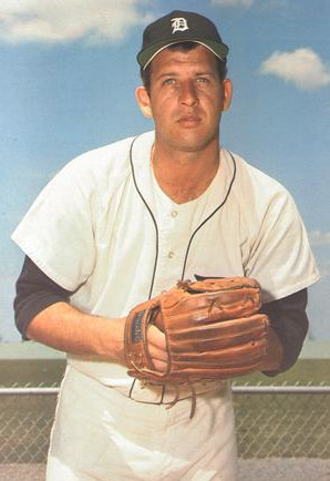 Professional baseball player Mickey Lolich